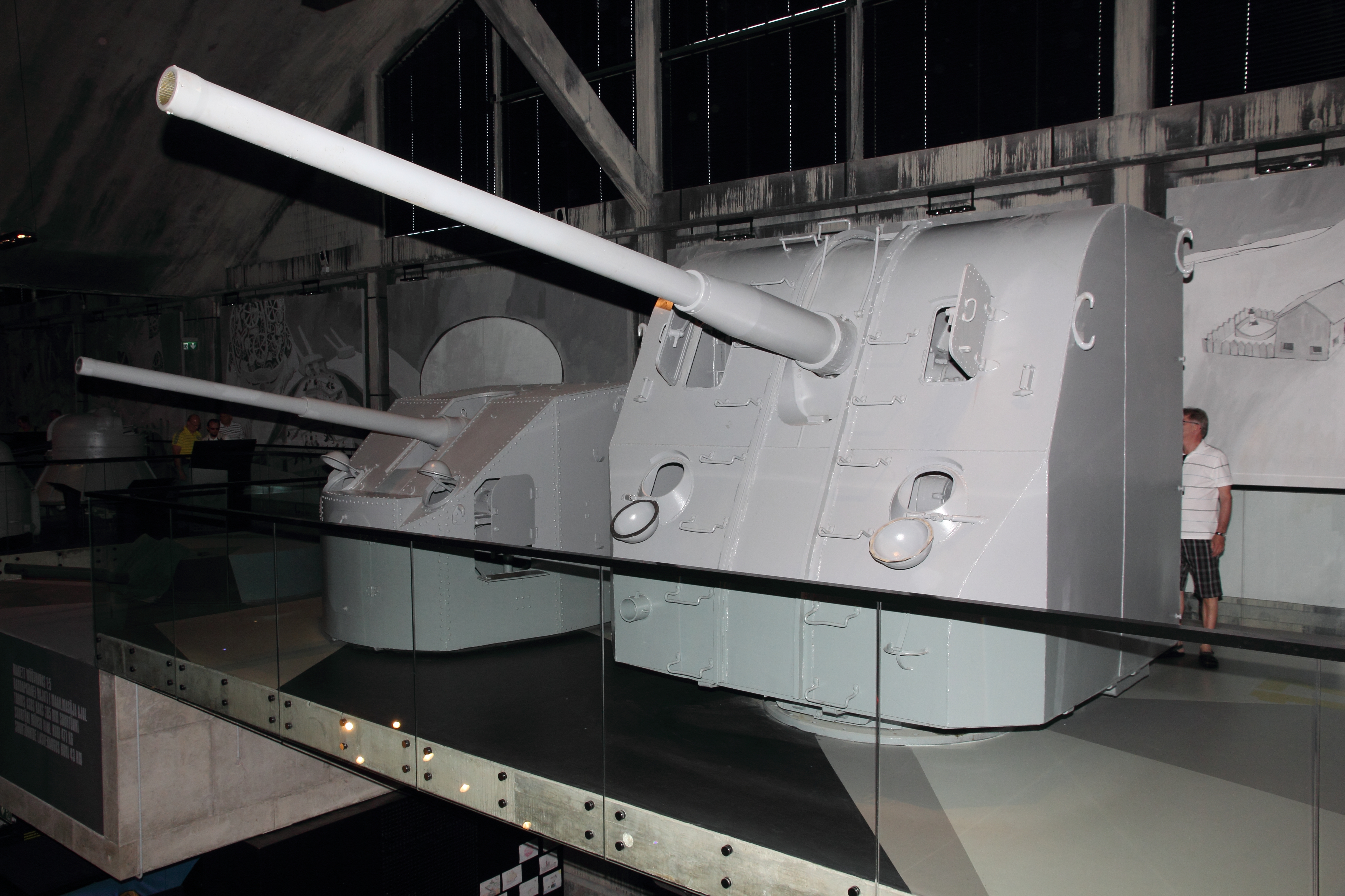 85 mm 90-K and 100 mm B-34 naval guns in Lennusadam maritime museum.